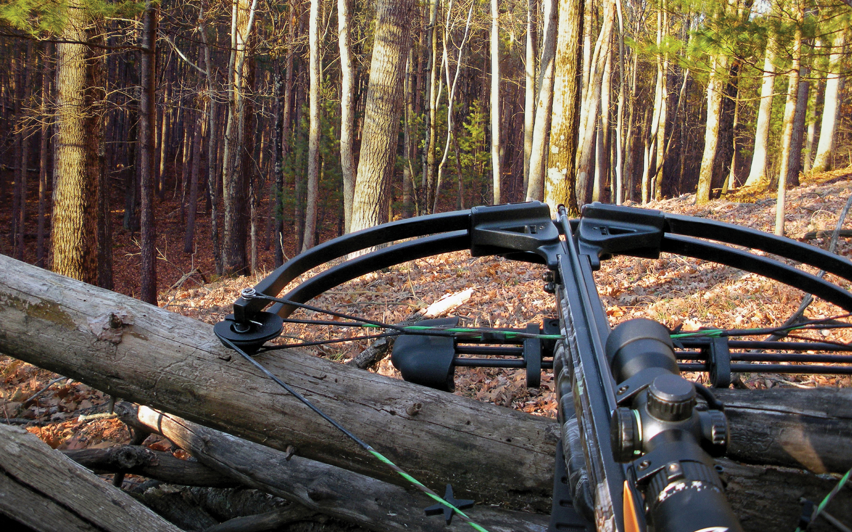 Crossbow hunting for whitetail deer behind a fence - Attribute to